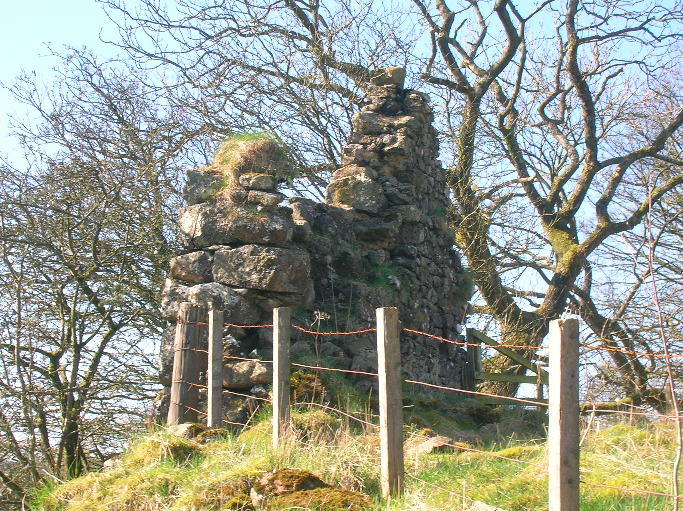 Old ruins, prior to 1850, at the old Mid Town Farm site near Threepwood Farm, North Ayrshire, Scotland.